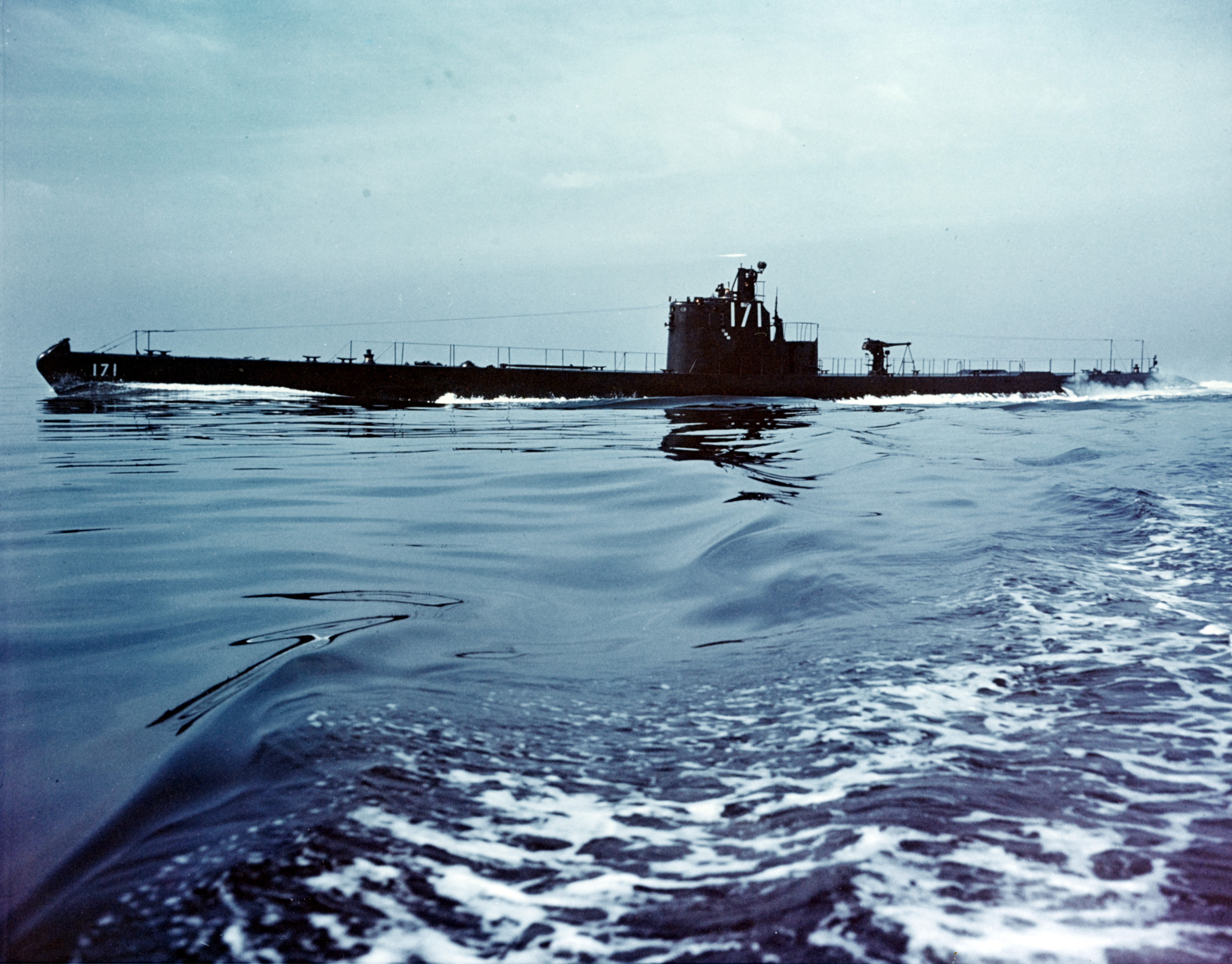 USS Cuttlefish (SS-171), underway, circa mid-1943, while serving on training duty out of New London, Connecticut.